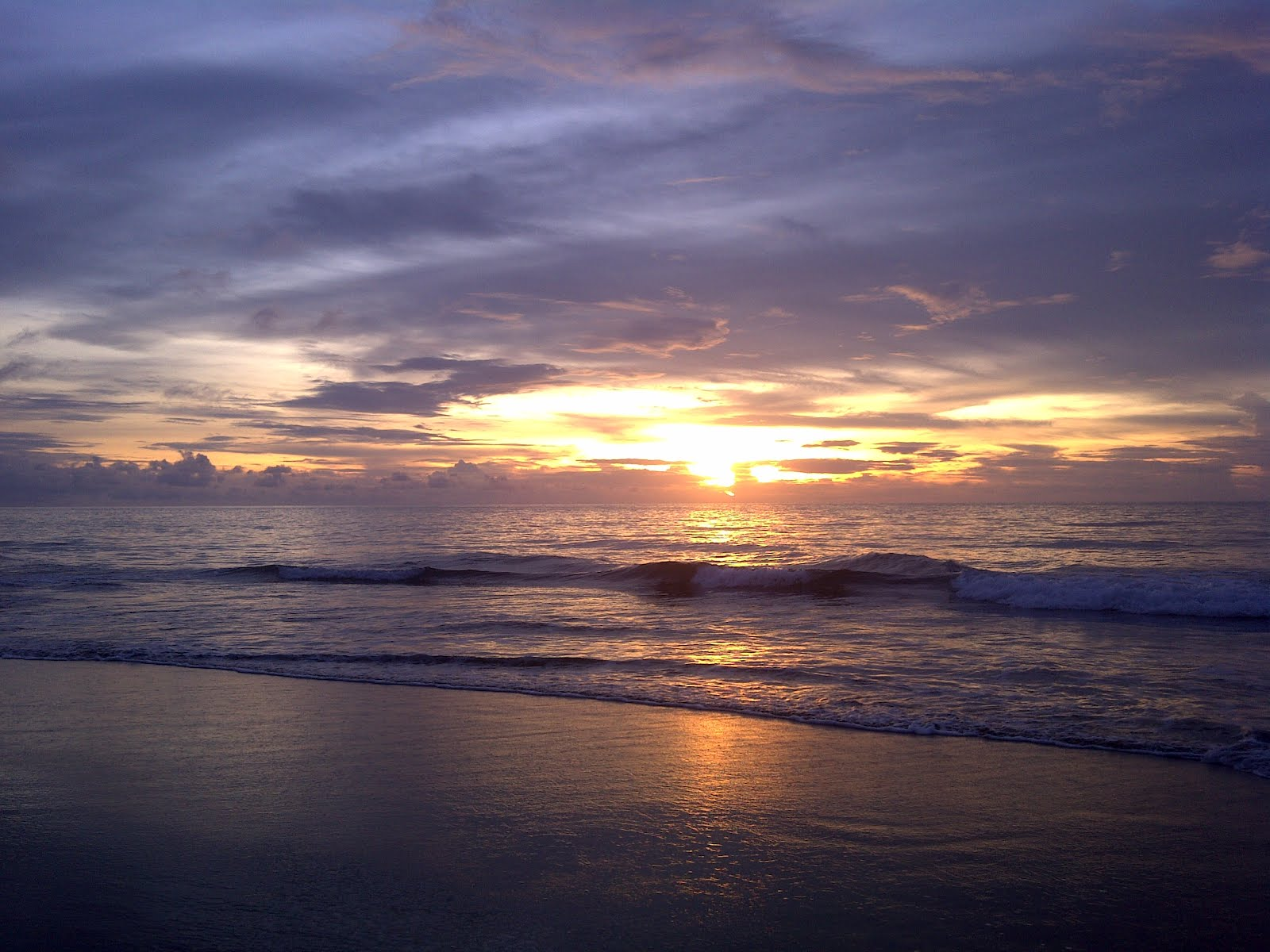 werur beach,tambrauw west papua Indonesia